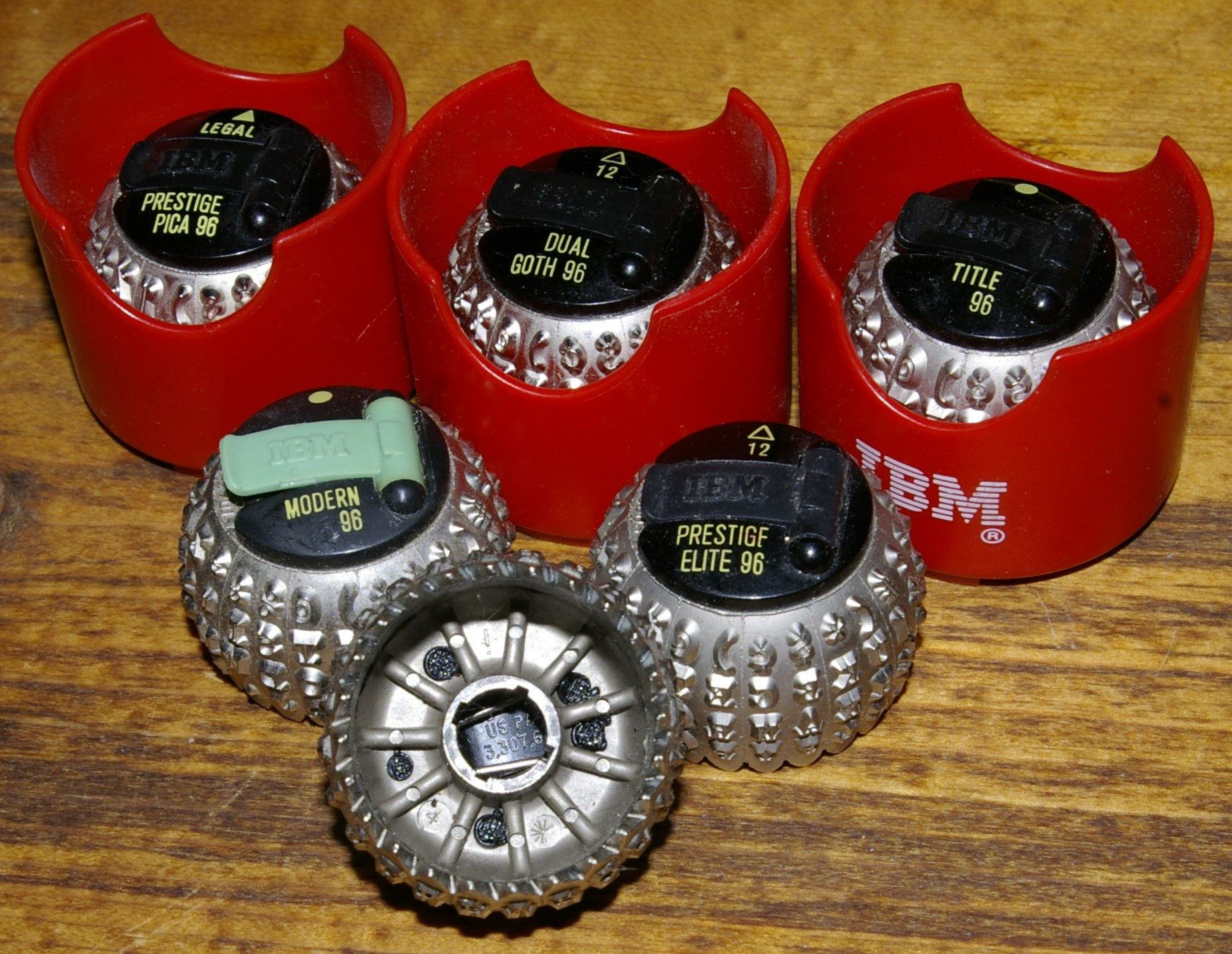 My own photo taken on 2011/02/15. These are 96-character typeballs; they will not fit in a machine taking 88-character balls.